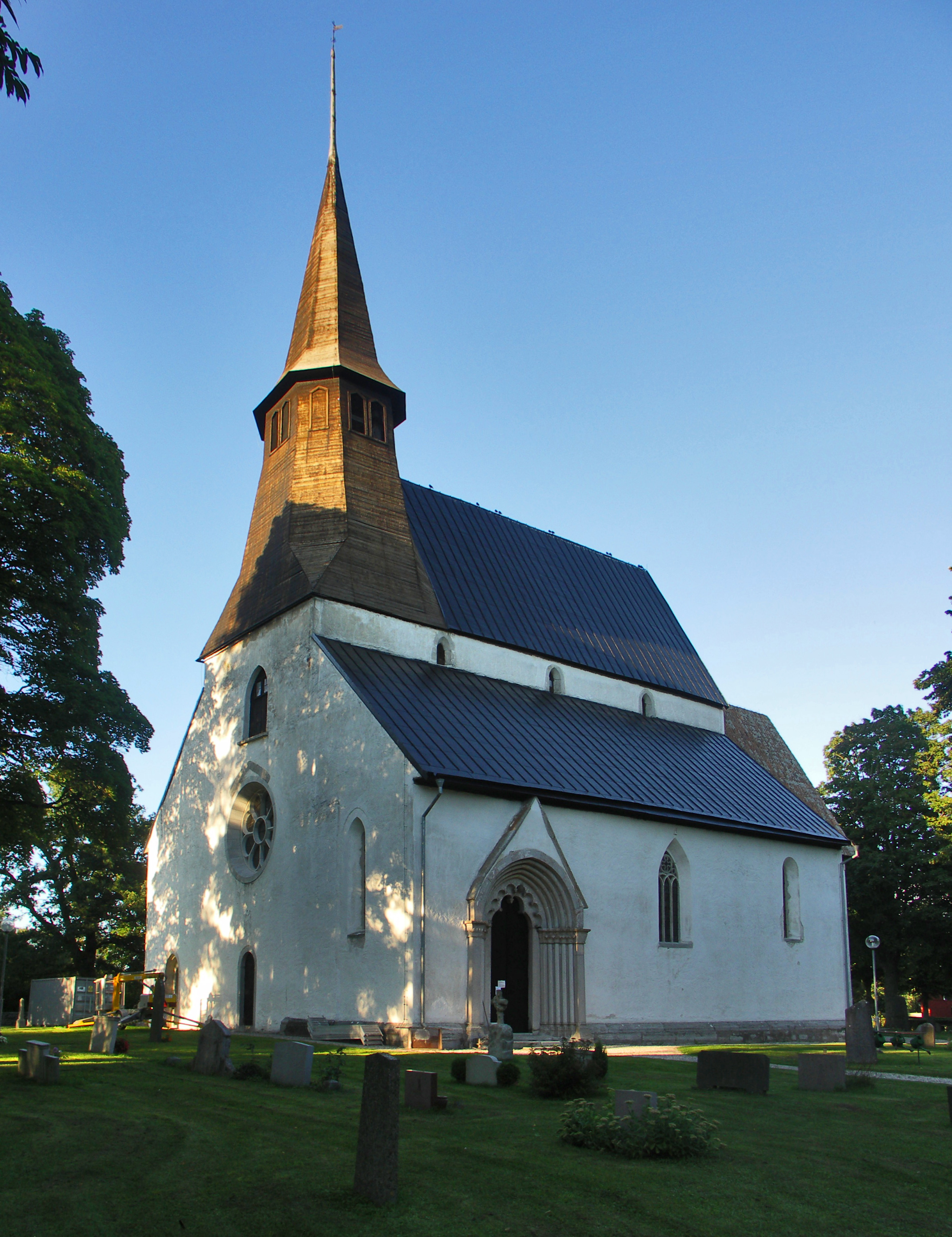 Roma church, Gotland, Sweden: South-West.